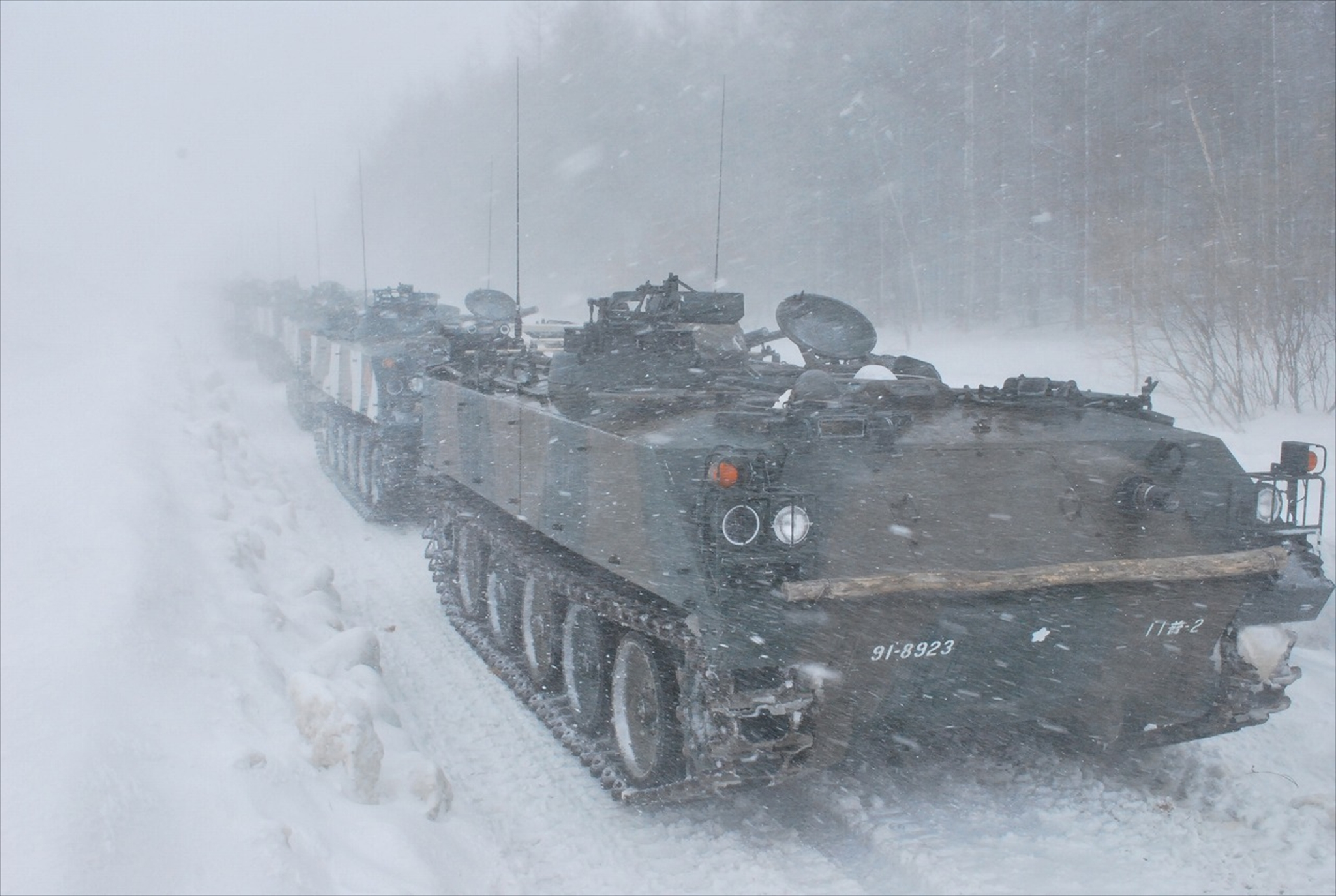 Title ７３式装甲車 DSC_2291.jpg Album 装備 ７３式装甲車（国内における米海兵隊との実動訓練・第１１普通科連隊）